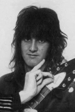 Photo of the musical group Tom Petty and the Heartbreakers.